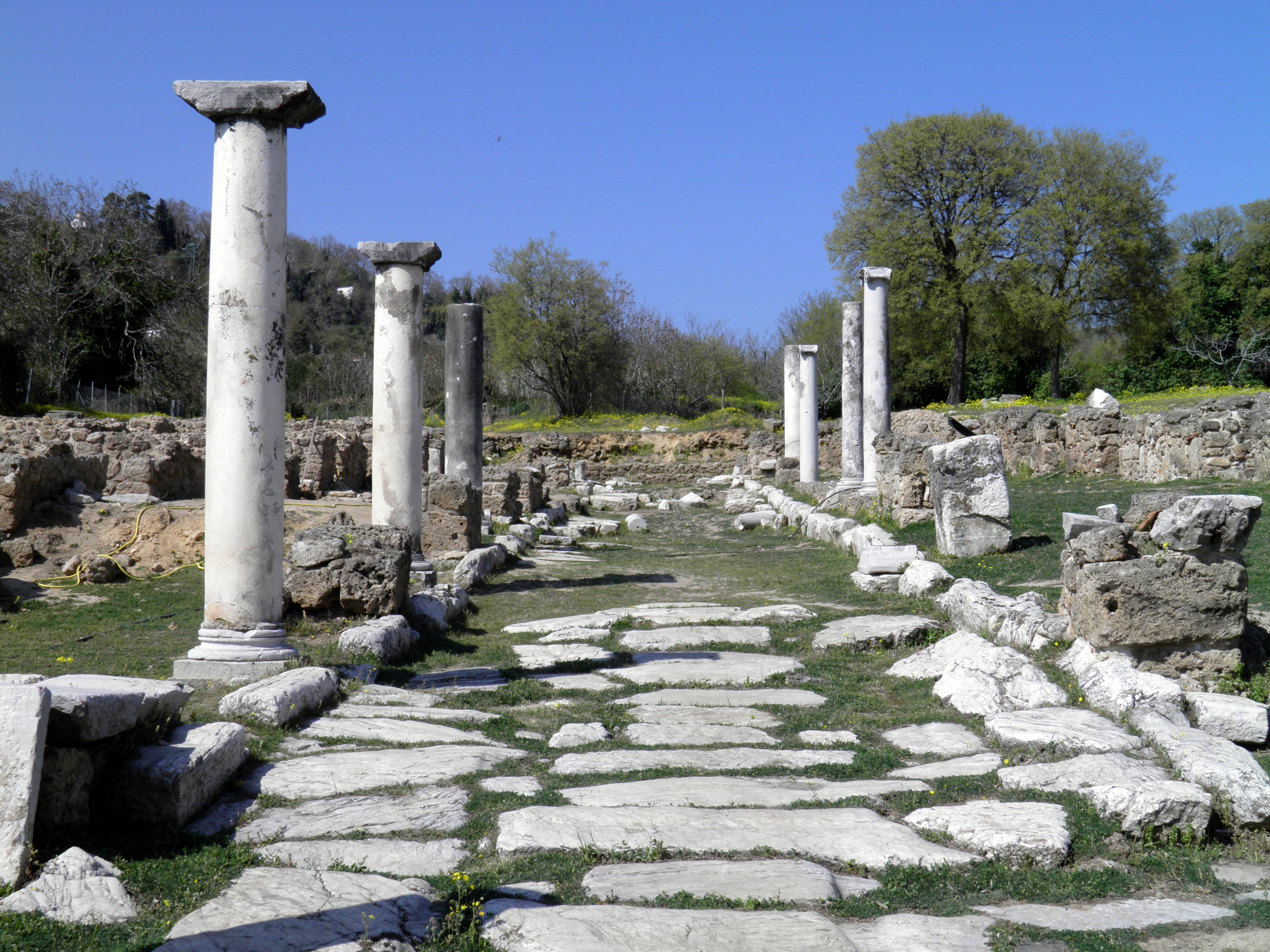 This central avenue ran between the city's nothernand southern gates. This road was flanked by covered galleries (stoai), 5,20m wide, their roofs supported by pillars and columns. Feeding into this central avenue were the side streets (3,50m wide) and narrower lanes that framed the urban blocks of buildings, most of which date from the Early Christian period. The ground floor rooms of these buildings, with entrances from the covered galleries and storage jars in the interior, were commercial premises, with living quarters on the floors above. One of these shops proved to have been a glassmaker's workshop.